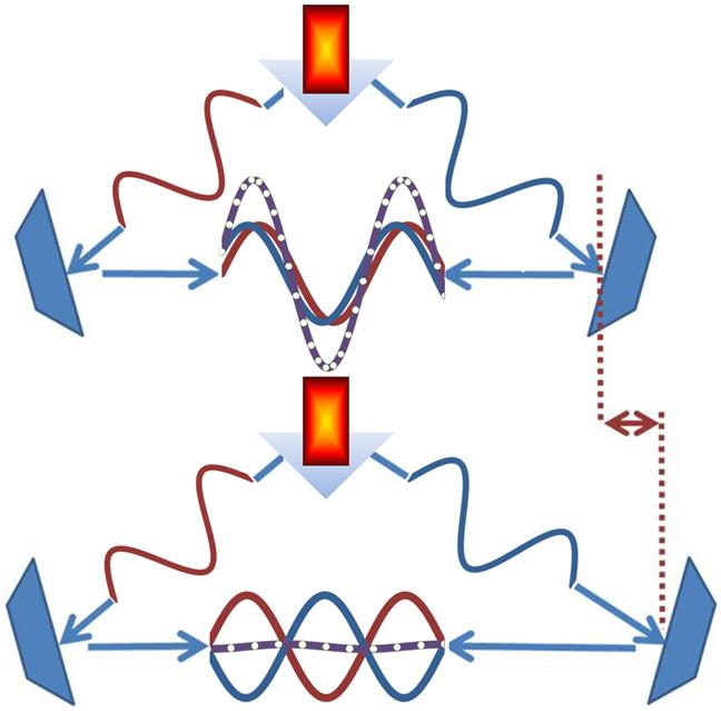 Interference of split light beams